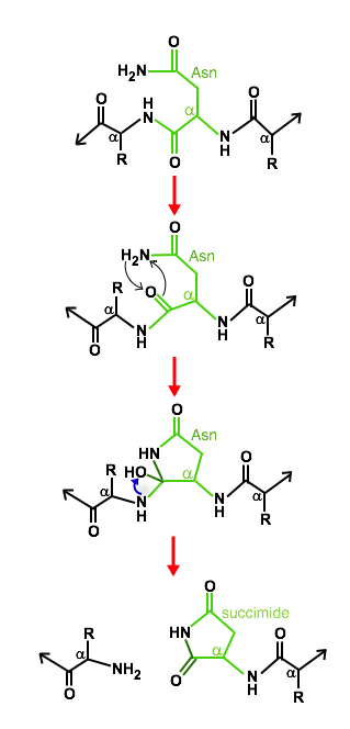 The active site asparagine residue (bonds in green) cycles, assisted by other active site residues, and nucleophilically attacks (blue arrow) its carbonyl peptide bond with the adjacent residue, forming a succimide and breaking the propeptide in two halves. New bonds are indicated with a darker green, the asparagine alfa-carbon is indicated in green and the alfa-carbon of the adjacent residues in black. Rs indicate the adjacent residues side chains.